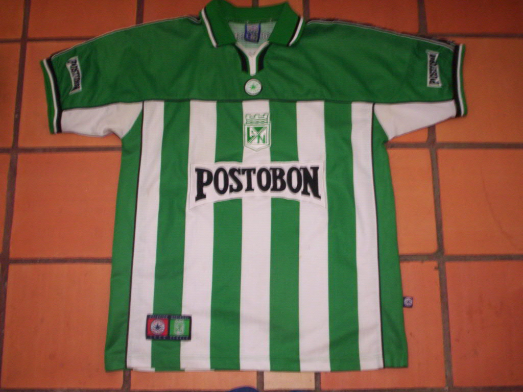 Atlético Nacional 2001 Home.